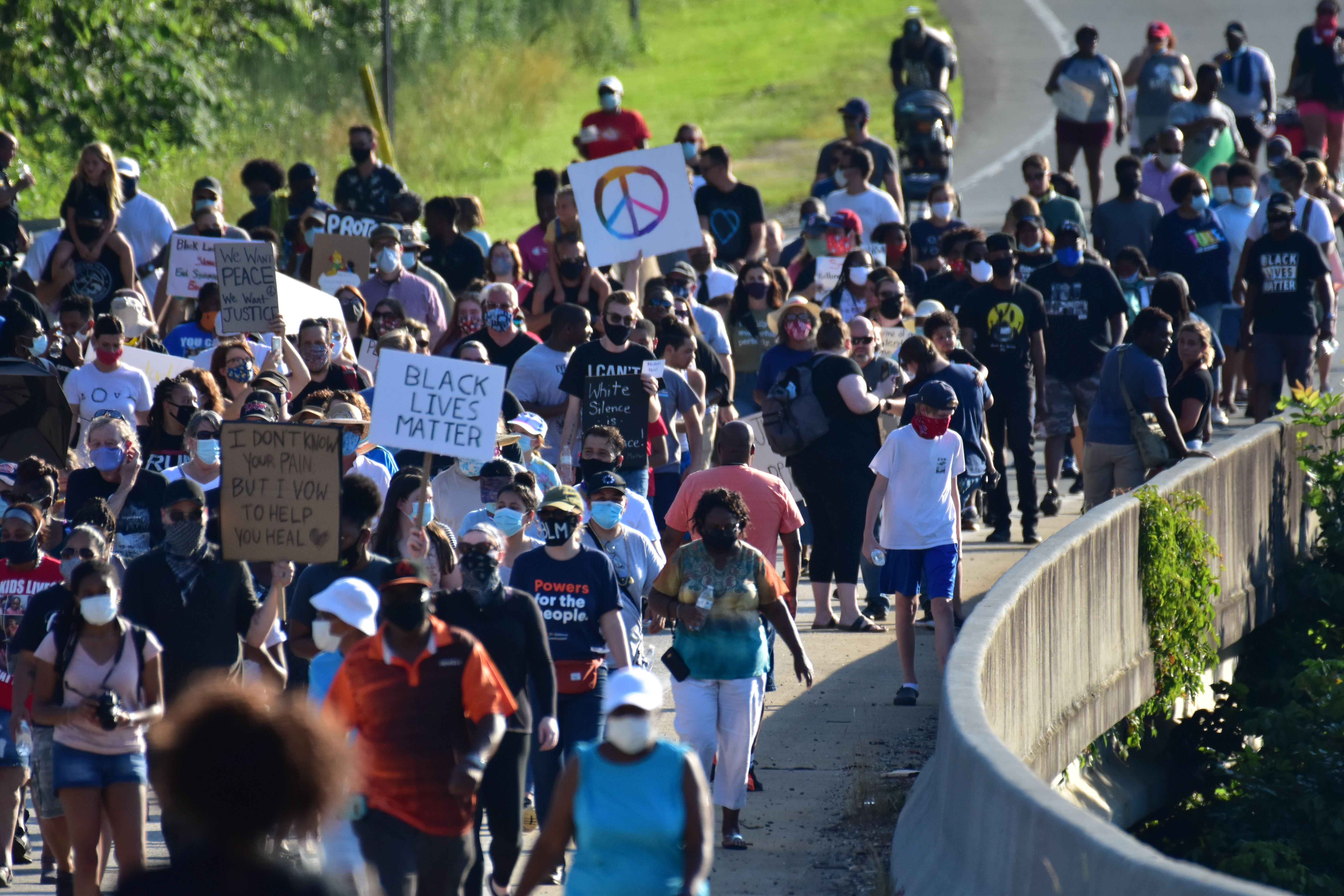 Peace Walk for Justice in Haw River (2020 June)